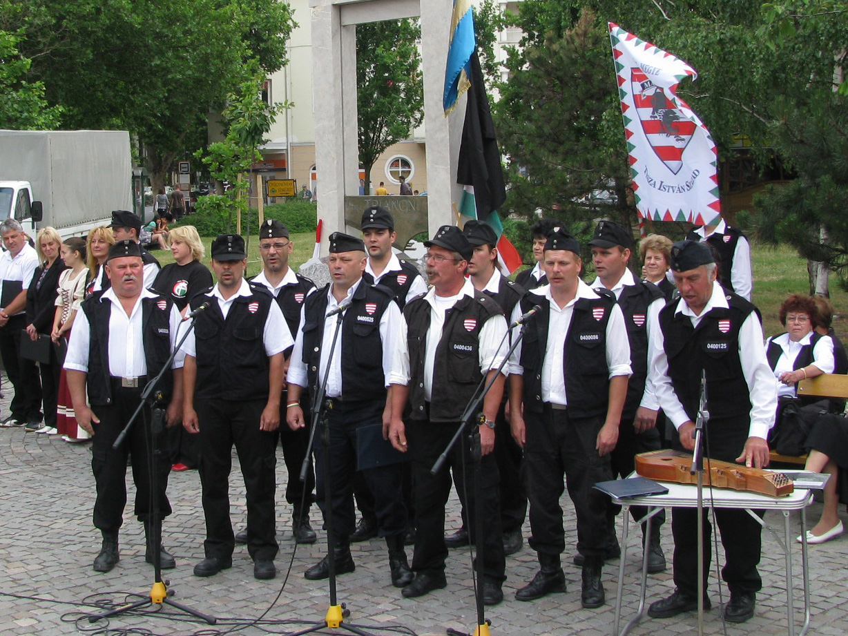 The Magyar Gárda (Hungarian Guard) in Békéscsaba on 06.04.2009, Trianon-day